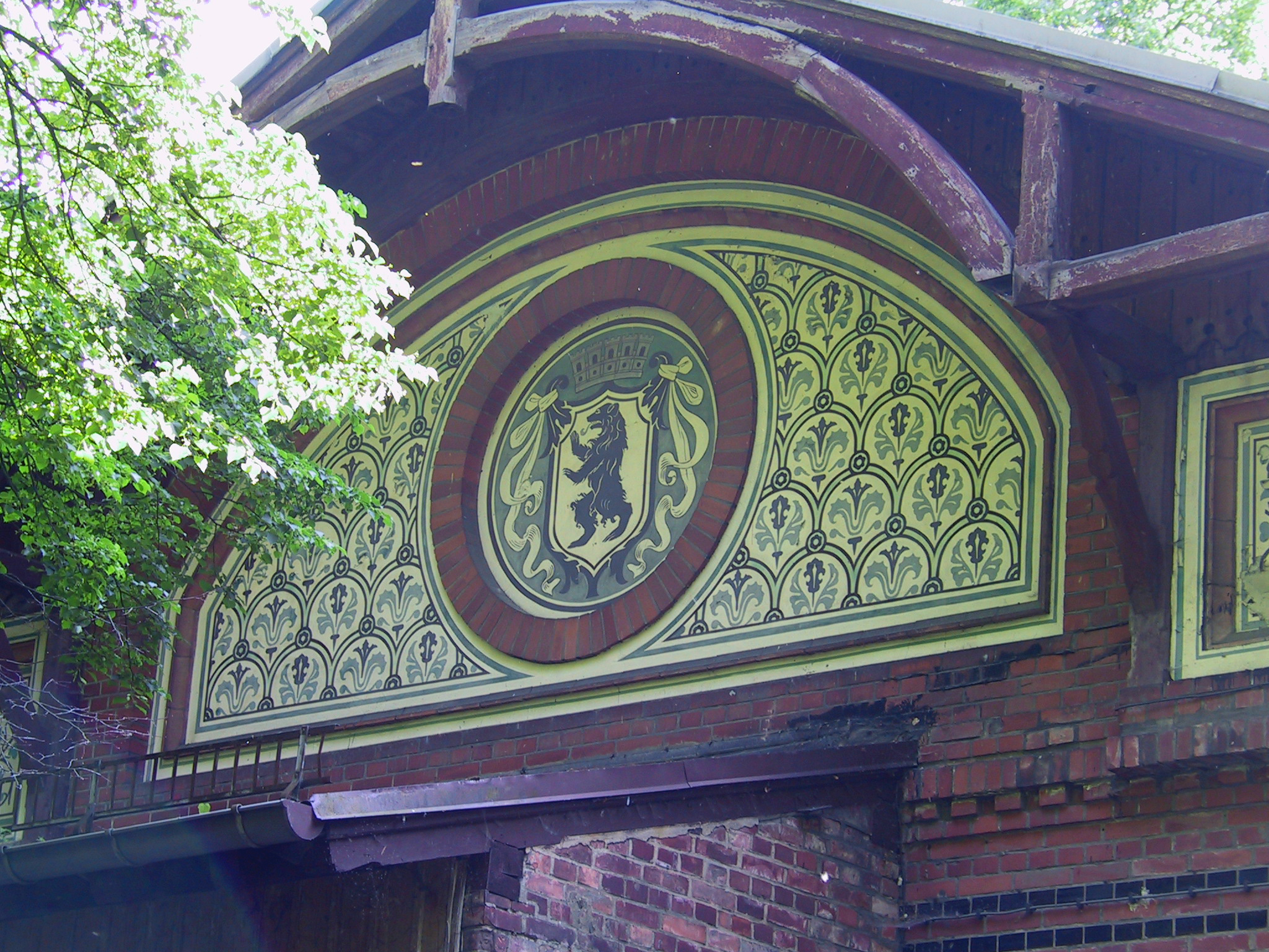 The old coat of arms of Berlin under the roof of the restaurant Eierhäuschen in Plänterwald, Berlin.